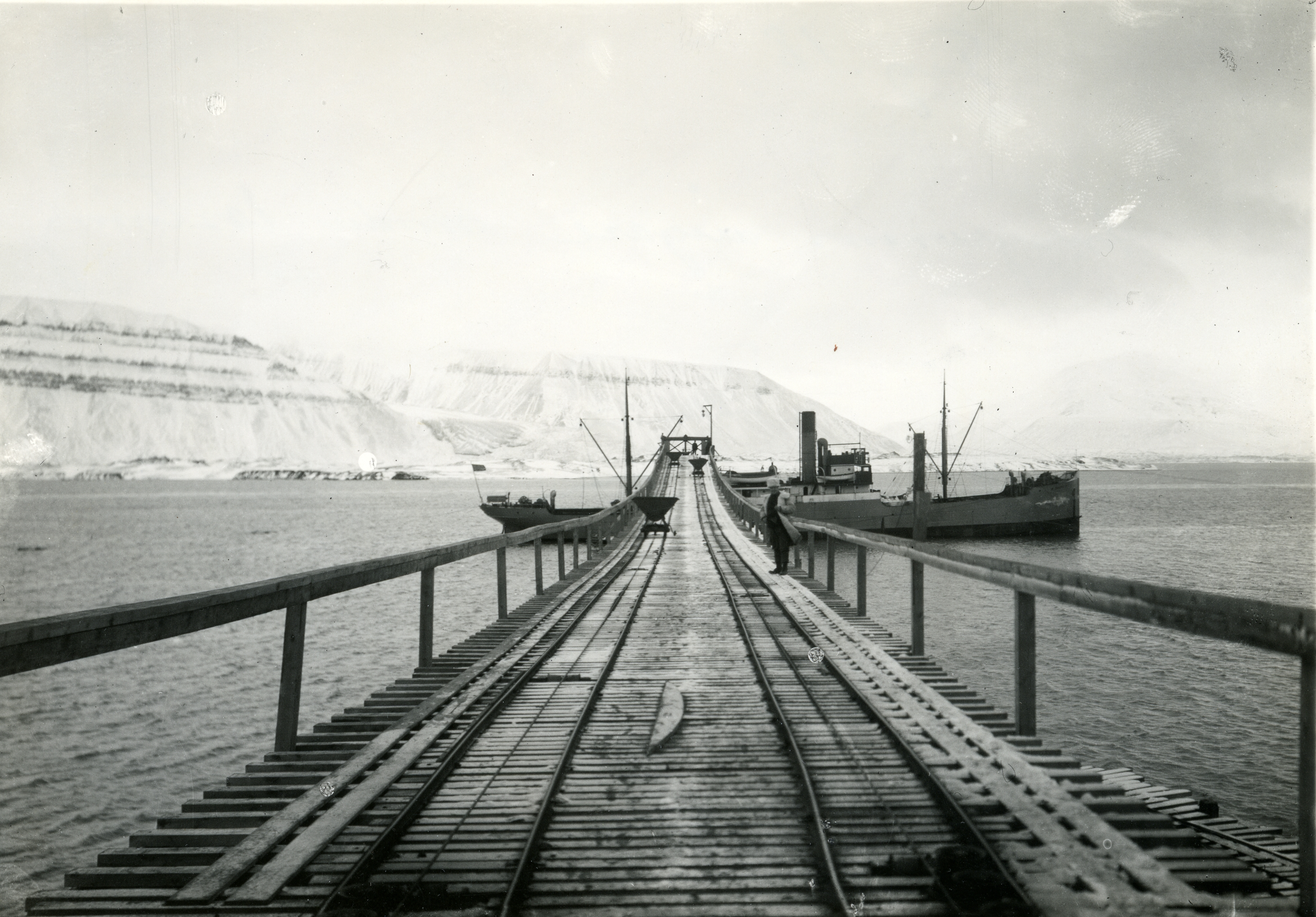 Shipping of cole from the Svea mine, 1920.